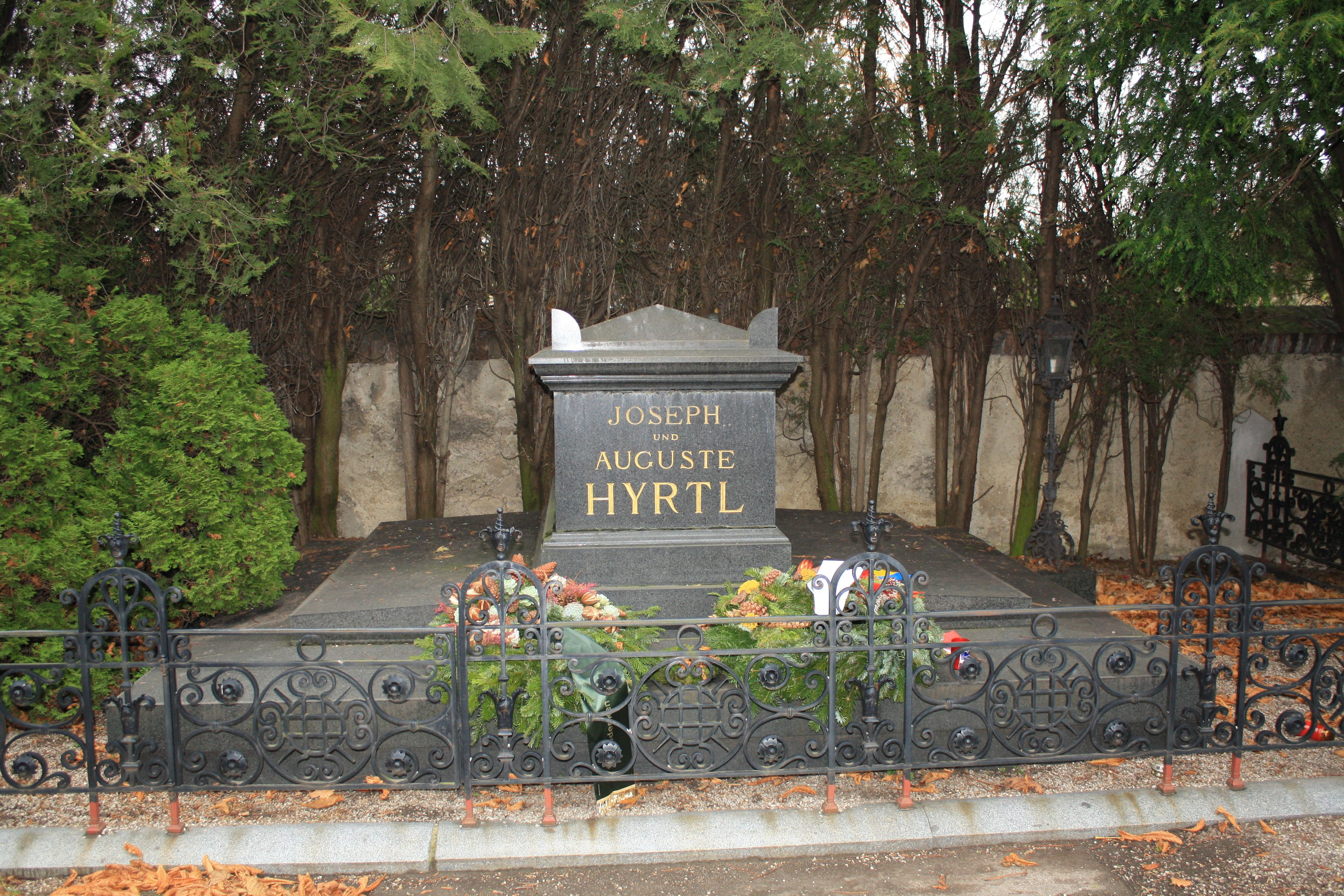 Cemetery in Perchtoldsdorf in Lower Austria